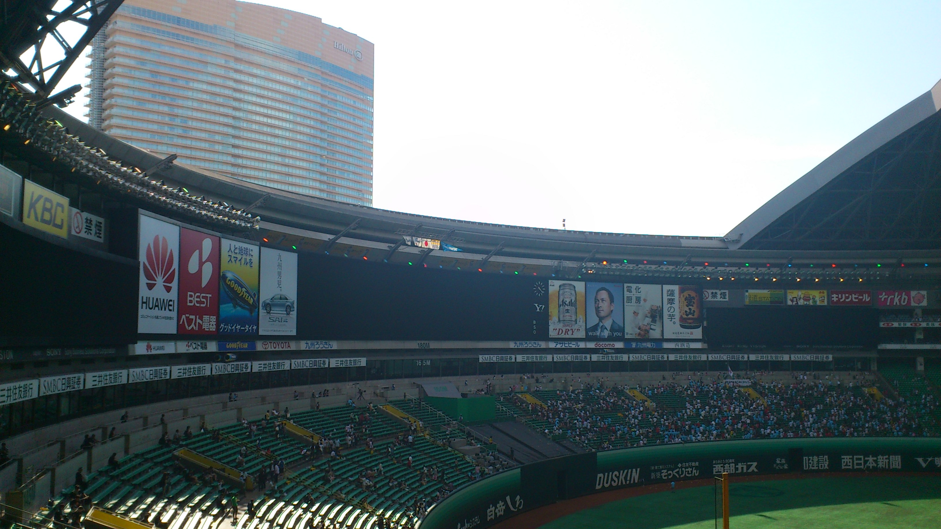 Fukuoka YAHOO!Japan Dome Roof open.